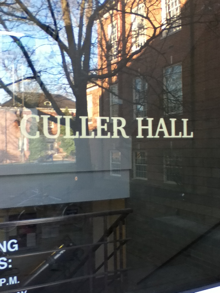 Culler Hall's name on the front window.